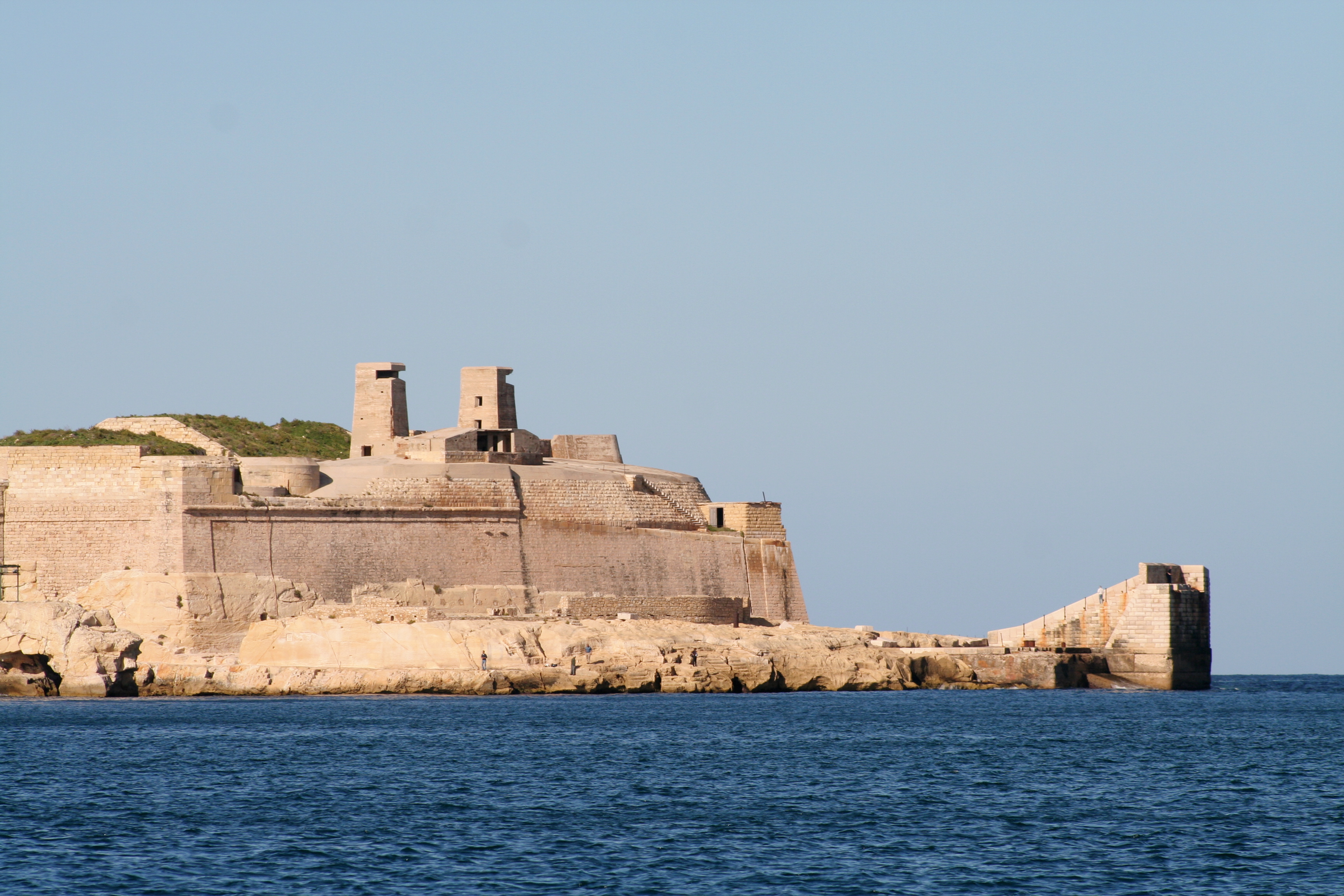 The following is the author's description of the photograph quoted directly from the photograph's Flickr page."The star-shaped Fort St Elmo is the most famous fort in Malta, built at the end of the peninsula upon which the capital city of Valletta was later built.When the Knights of St John first landed in Malta in 1530 the entrances to the Grand and Marsamuxett Harbour were virtually undefended. Realising the need for a coast defence work with gun platforms and a fort capable of withstanding a limited attack or raid, various plans were drawn up. However, given the resources that were being put into in the development of defences at Birgu and Fort St Angelo, funds were insufficient and further development halted.During the Great Siege of 1565 Fort St Elmo felt the fury of the Turkisk armada attacks. Bombarded by massed batteries on the higher ground behind, it took a punishment it was never designed to withstand and, remarkably, withstood a siege by the finest Turkish soldiers for a full month. The bravery of the people within, both Knights and local people, and the ability of the knights to resupply and reinforce this beleagued fort across the Grand Harbour during the hours of darkness, ensured its survival. Notwithstanding these acts of heroism and gallantry the fort finally fell to the Turks on June 23 1565.Fort St Elmo was used in battle until the last World War and had no intention of again falling victim to the Italians, just as happened with the Turks. In 1941 her guns fired in anger at the Italian explosive motorboats and E boats trying to attack shipping in the harbours and contributed, not only to the successful coast defence action, but also to the survival of the Maltese people and the unsuccessful attempts of landing by Fascist and Nazi forces. "